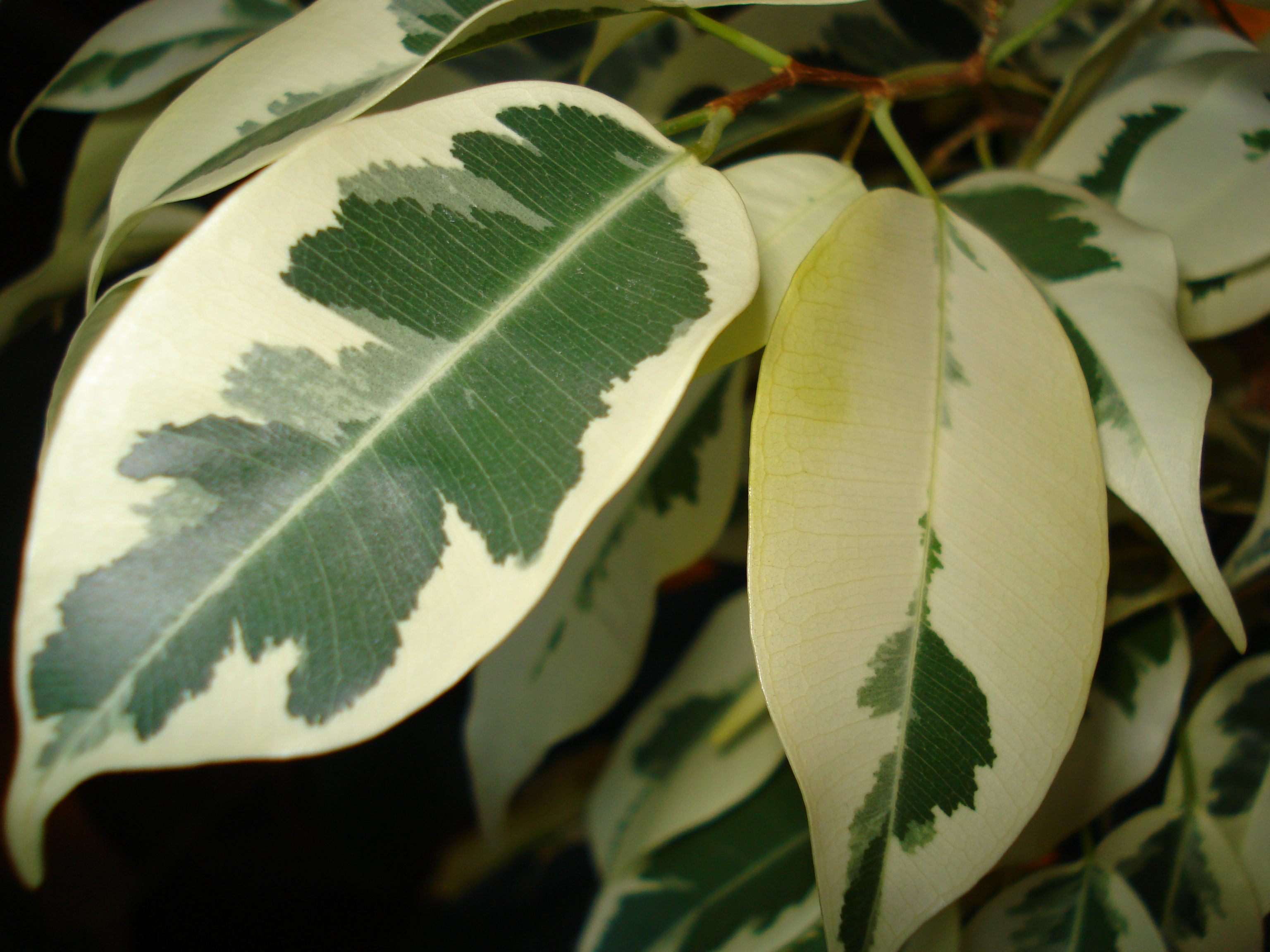 Ficus Benjamina L. Variegated chlorophyll-deficient chimera.